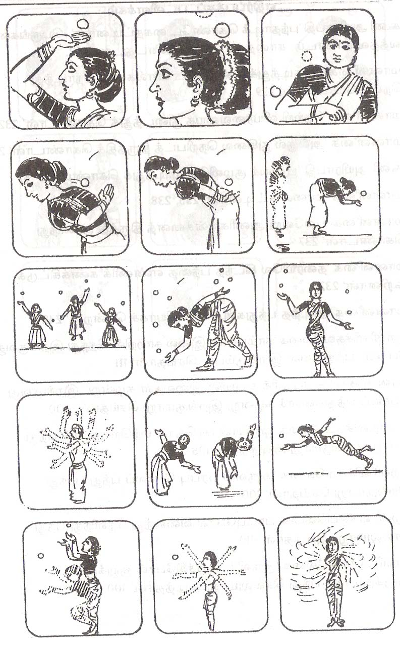 Games of India, Juggling balls, as per Perunkathai, a Tamil literature of 7th century. First published in uploader's book Pazhangala Vilayattugal (பழங்கால விளையாட்டுகள்) - published in 2002. This is a scan of the image from the book